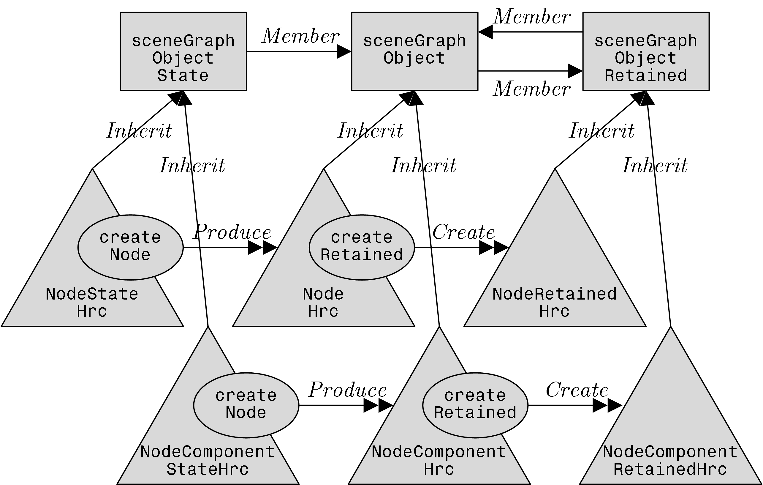 Java3D, three central hierarchies in LePUS3